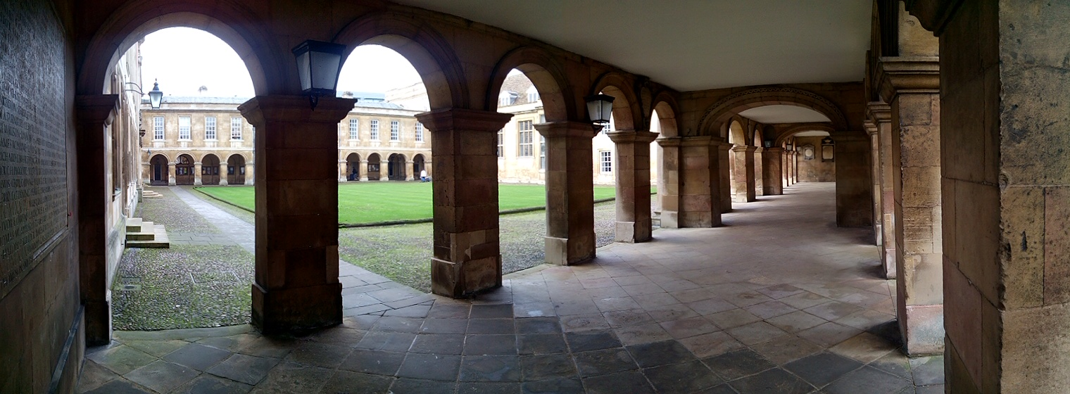 Emmanuel College Front, corridor, panoramica, Cambridge